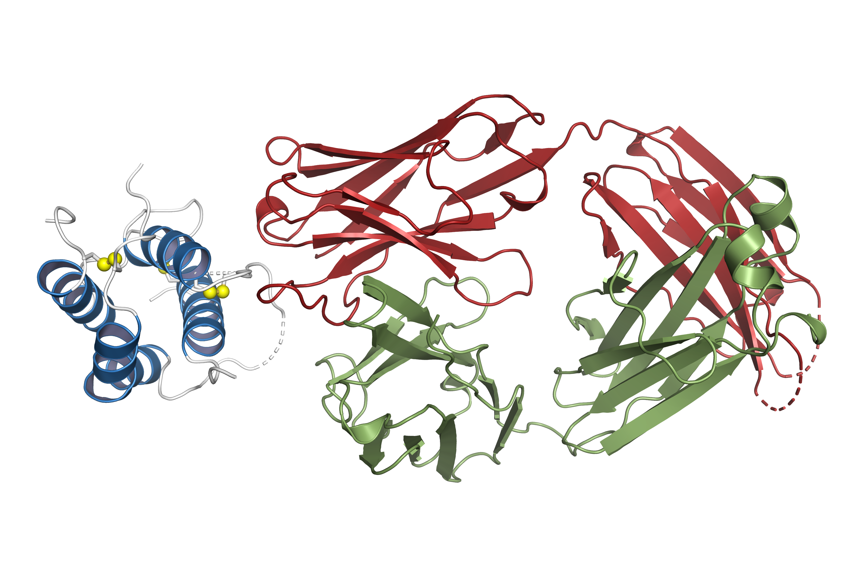 Crystal structure of human TSLP in complex with the Fab-fragment of the Tezepelumab antibody (PDB 5J13).